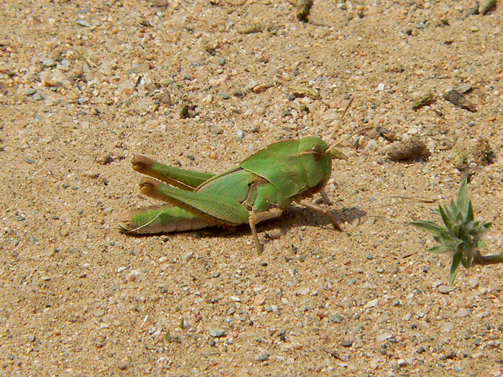 Solitary L5 hopper of Locusta m. migratorioides photographed near Aeterba, Red Sea coast, Sudan